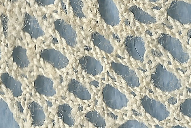 Kat stitch, also known as point de Paris